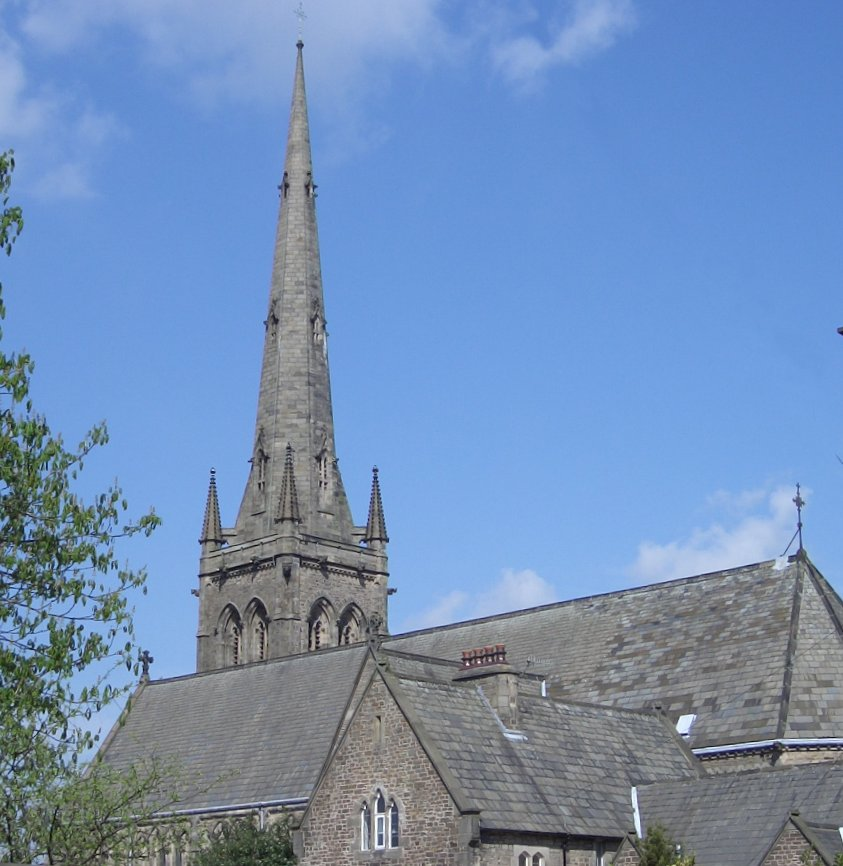 My photo of Lancaster Cathedral